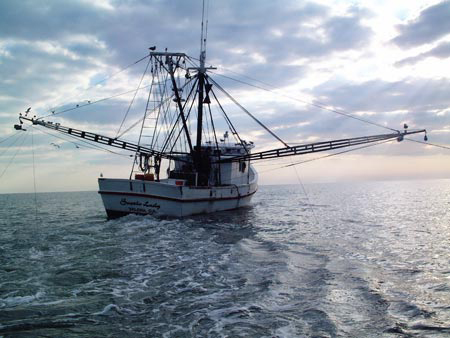 Shrimp trawler